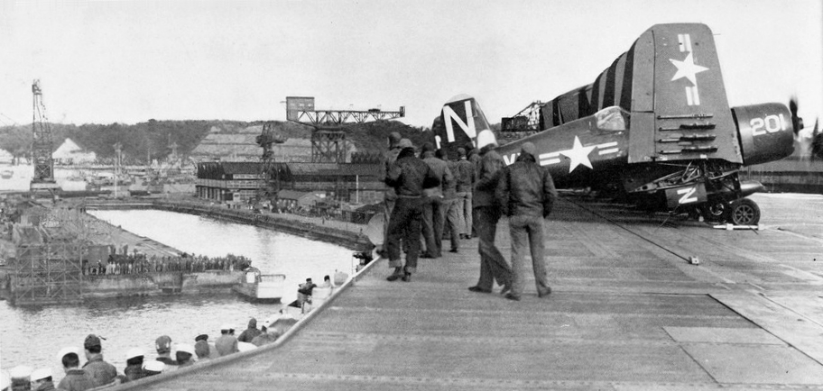 U.S. Navy Vought F4U-4 Corsair from Fighter Squadron VF-92 Silver Kings aboard the aircraft carrier USS Valley Forge (CVA-45) while the carrier was entering a dry dock in Japan. VF-92 was assigned to Carrier Air Group 5 (CVG-5) aboard the Valley Forge for a deployment to Korea from 20 November 1952 to 25 June 1953.